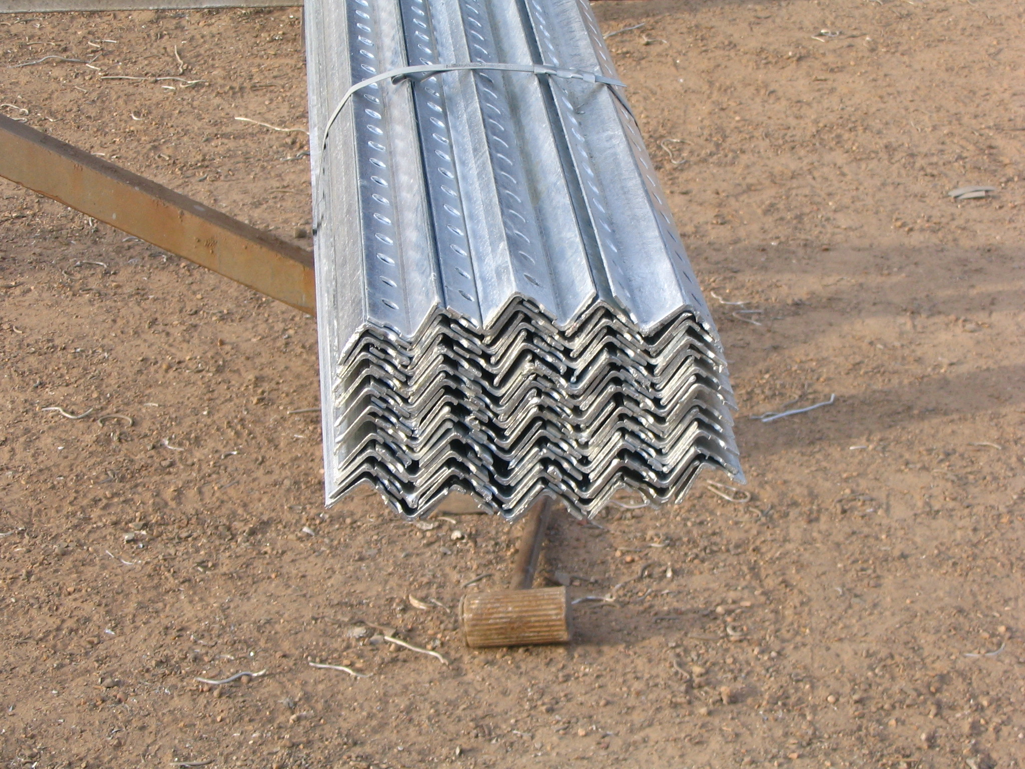 I took this picture during a tour of Aztec Galvanizing's facility in Waskom, TX. Picture taken 3/22/07.